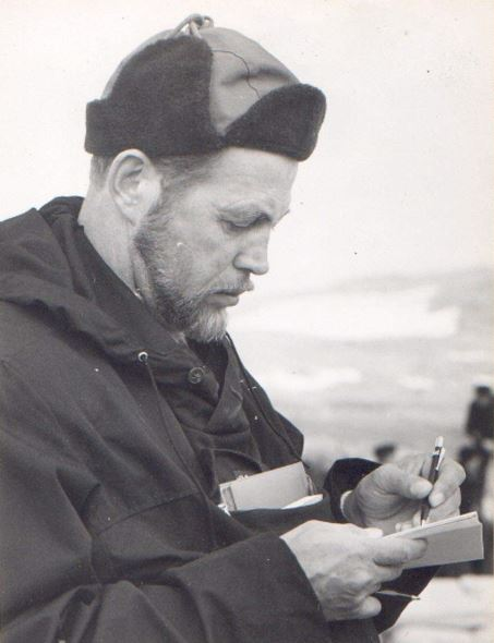 Swedish artist Roland Svensson aboard the Älvsnabben on its north bound mission to Nordkap and Spetsbergen in 1957.